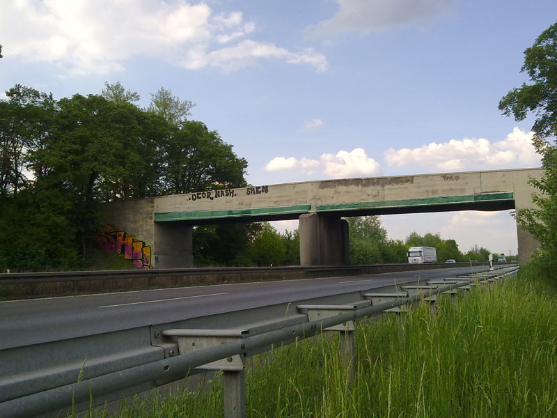 Last HaFraBa motorway bridge on the A67 from 1934. Demolition in May 2015.